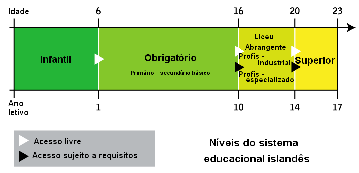 A diagram showing the different levels that the Icelandic education system comprises in portuguese language.